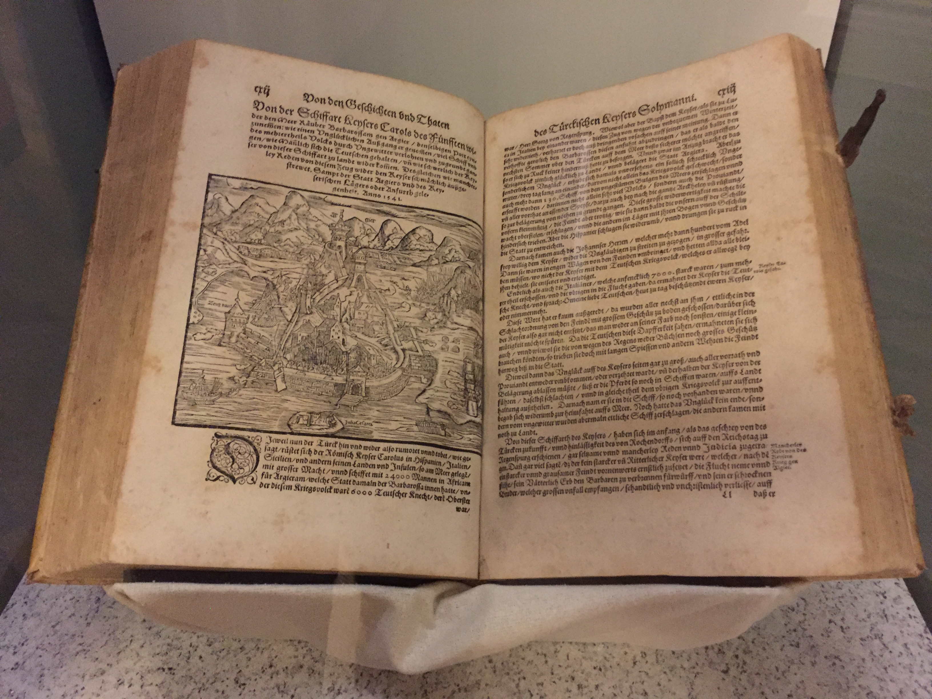 Description of the Turkish Emperor Süleyman's court. Nikolaus Höninger, Basel 1596. Deutsches Historisches Museum, Berlin